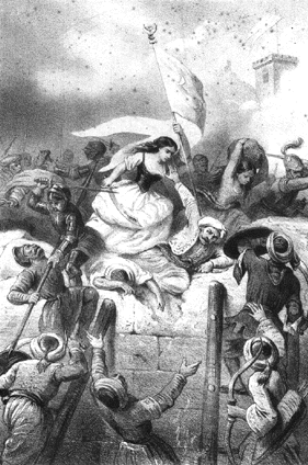 Engraving of Emmanuel Costa featuring Catherine Ségurane during the Siege of Nice in 1543.